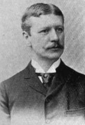 William Copeland Wallace, New York Congressman